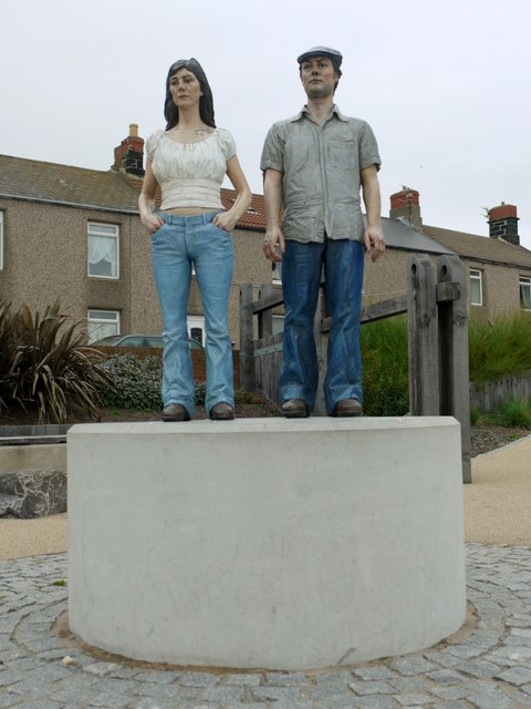 'Land Couple' by Sean Henry